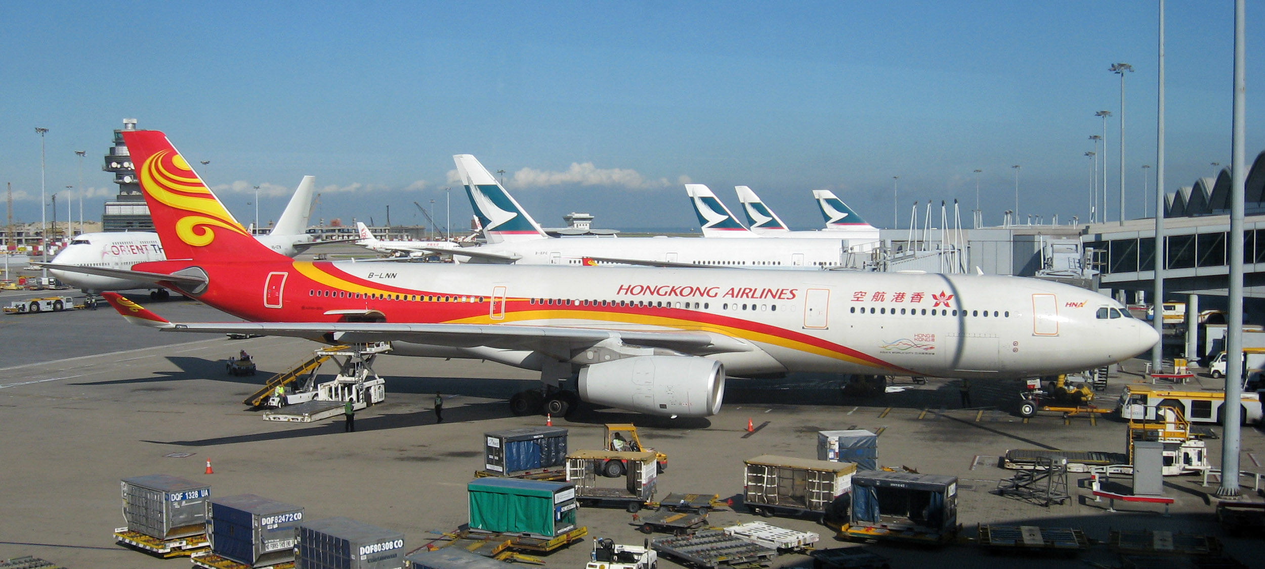 A Hong Kong Airlines aircraft